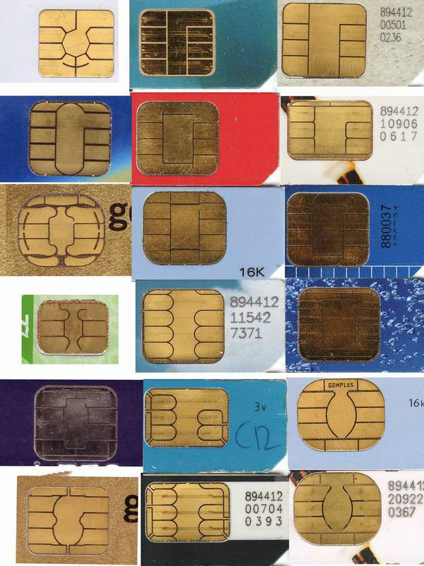 Scans of different types of contact pads on Smart Cards and SIMS